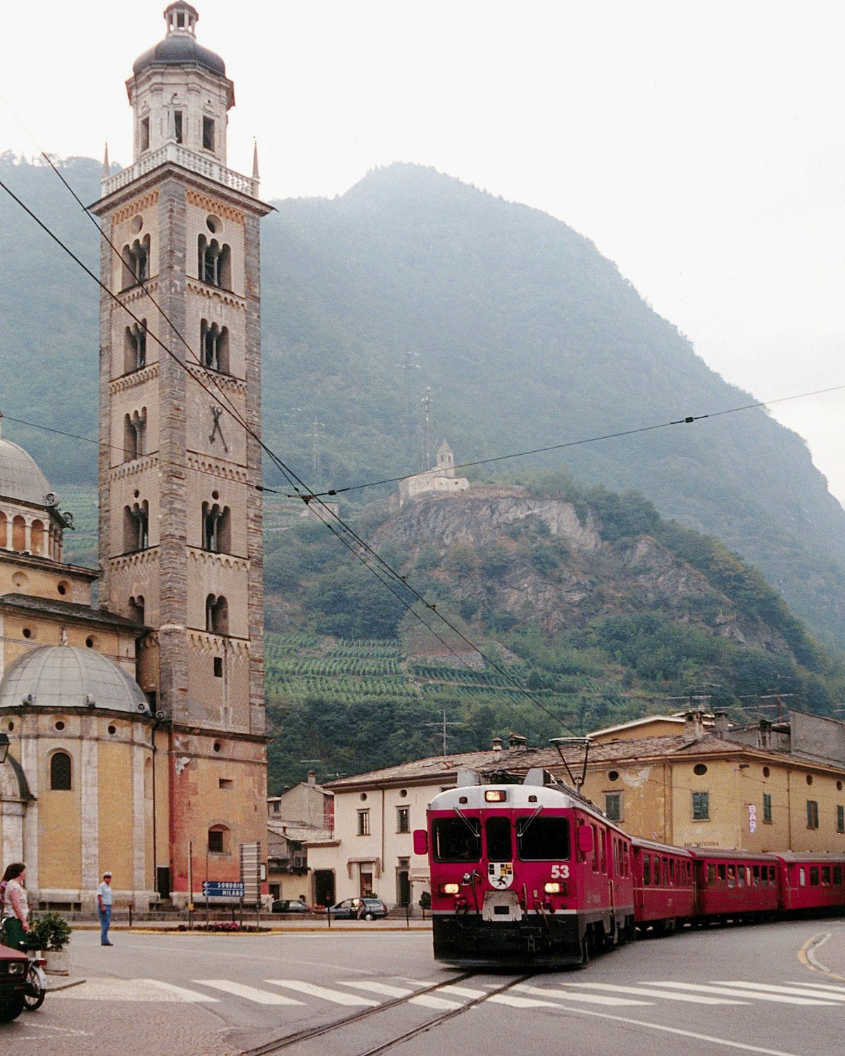 Train of the Berninabahn passing "Madonna di Tirano" pilgrimage church in Tirano, Italy